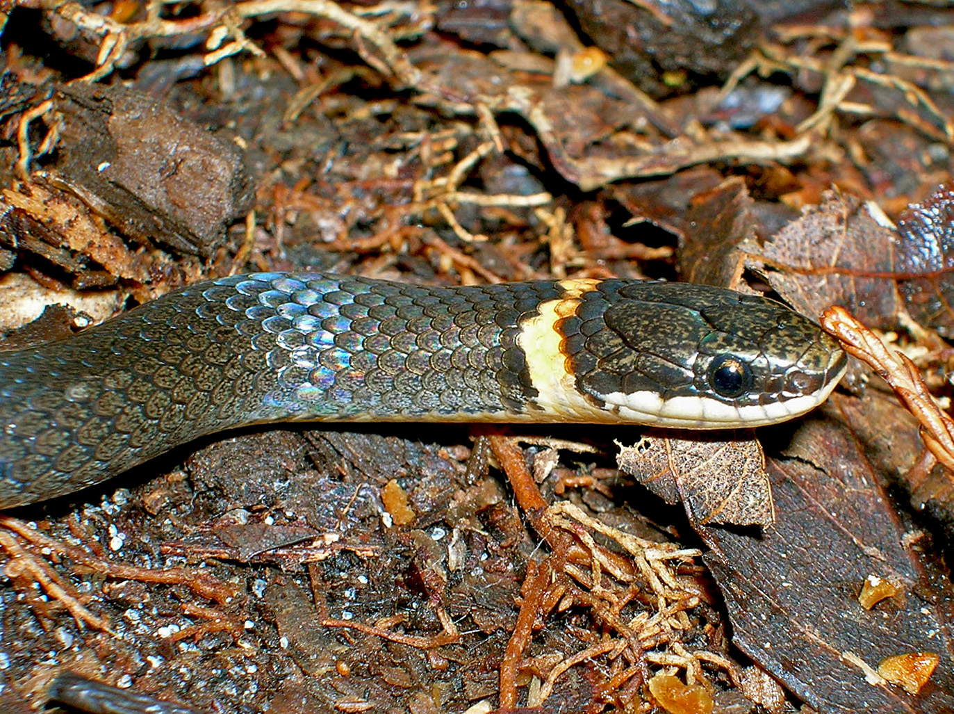 Southern ringneck snake (Diadophis punctatus punctatus) closeup. Even though it has a ring which is (almost?) complete, the ID was verified by the location (Southern NC, USA), and by the mid-ventral row of black spots.